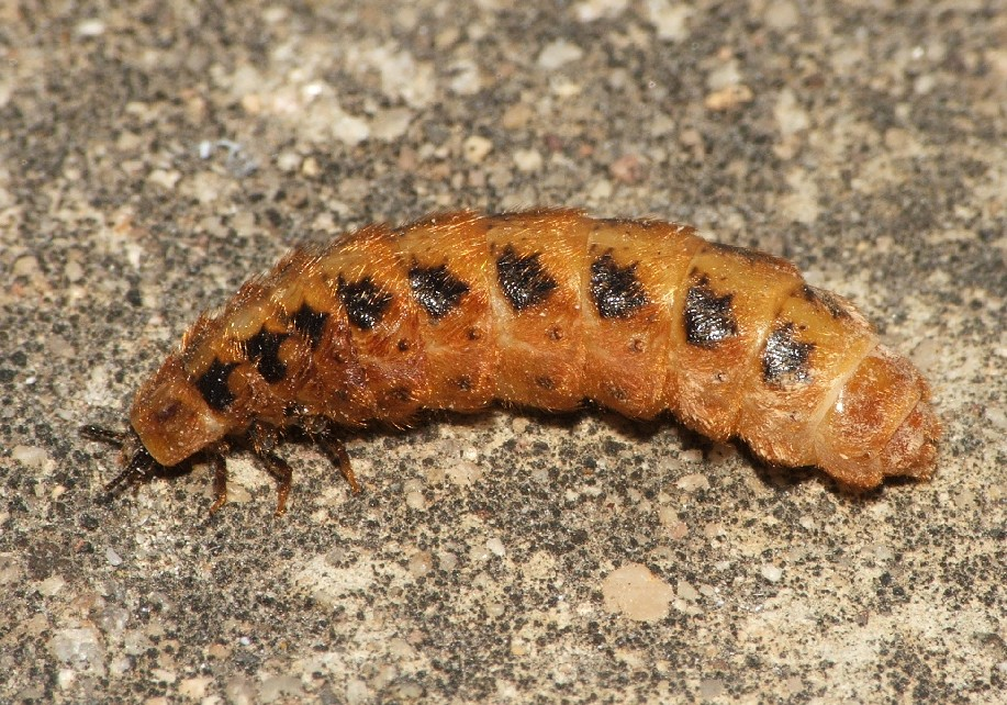 Adult female of Malacogaster passerinii